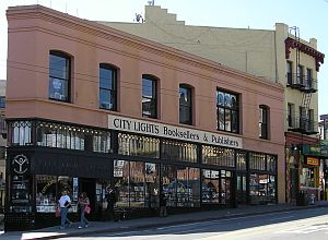 author: Albrecht Conz, 2007